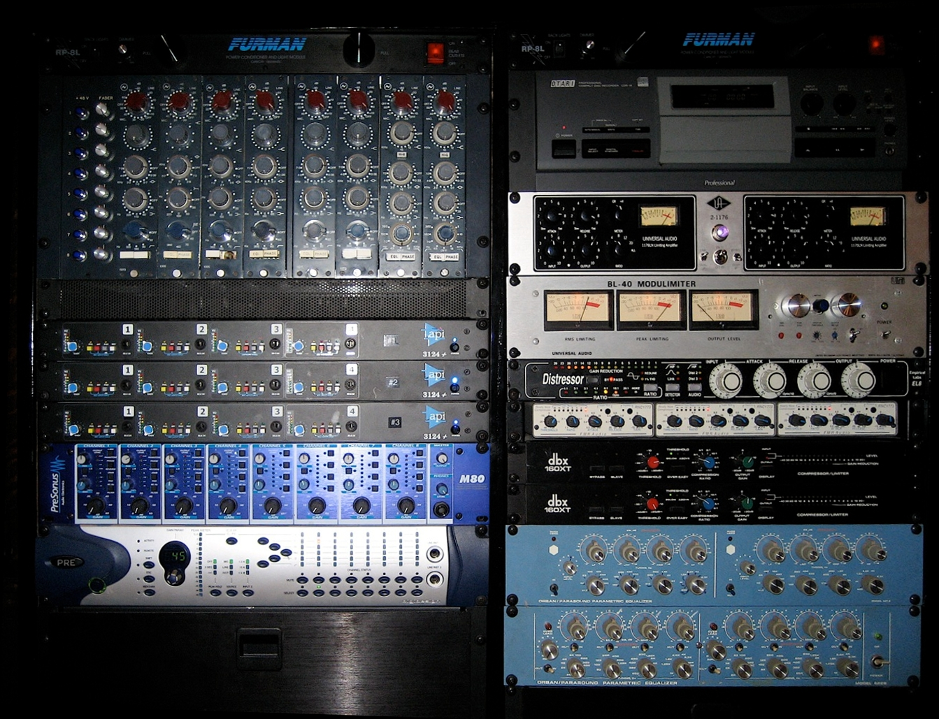 ...knob your enemy left FURMAN RP-8L Power Conditioner and Light Module Neve 1073 Mic Pre/EQ (×8) unknown API 3124+ Discrete 4ch Mic/Line Pre + DI (×3) PreSonus M80 8ch Mic-Preamplifier w/ Stereo Summing Bus digidesign PRE 8ch Mic Preamp right FURMAN RP-8L Power Conditioner and Light Module Otari CDR-18 CD Recorder Universal Audio 2-1176 Twin Vintage Limiting Amplifier Universal Audio / Urei BL-40 Modulimiter Empirical Labs Distresser EL8 FMR Audio RNC1173 Really Nice Compressor (×3) dbx 160XT Compressor/Limiter (×2) Orban / Parasound 621B Parametric EQ Orban / Parasound 622B Parametric EQ